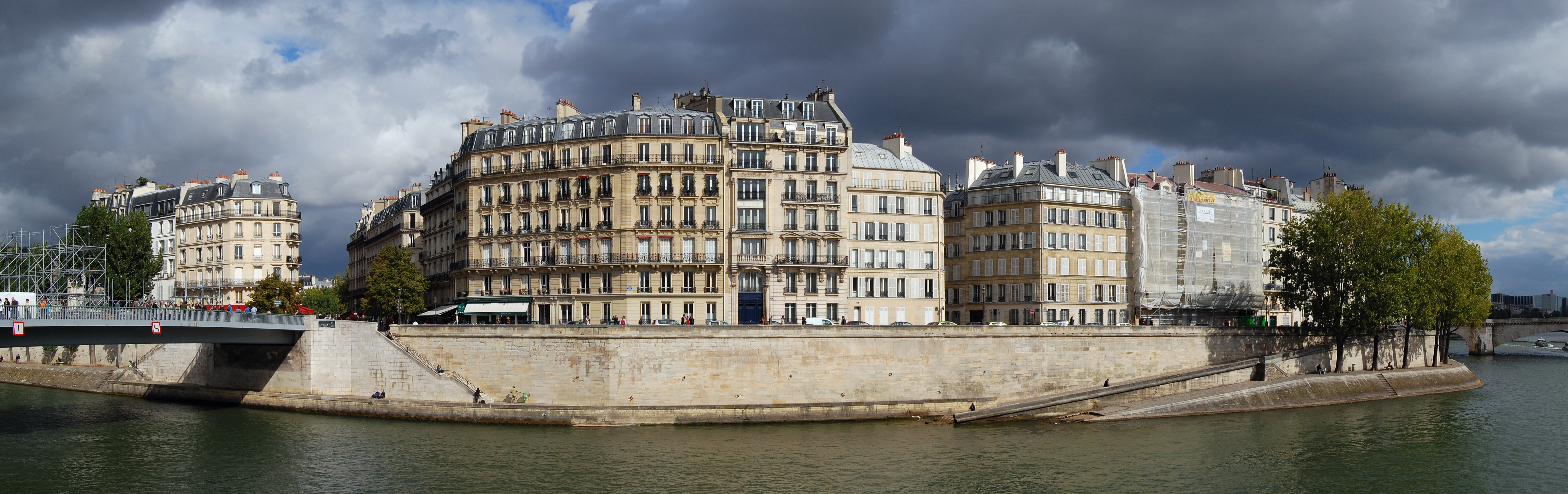 Île Saint-Louis, Paris.